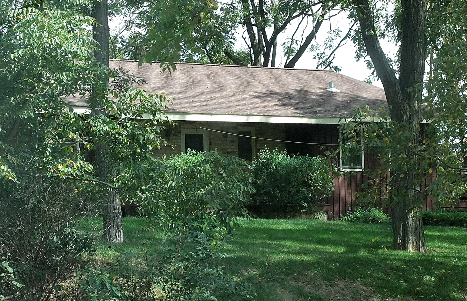 Aslak Lie Cabin